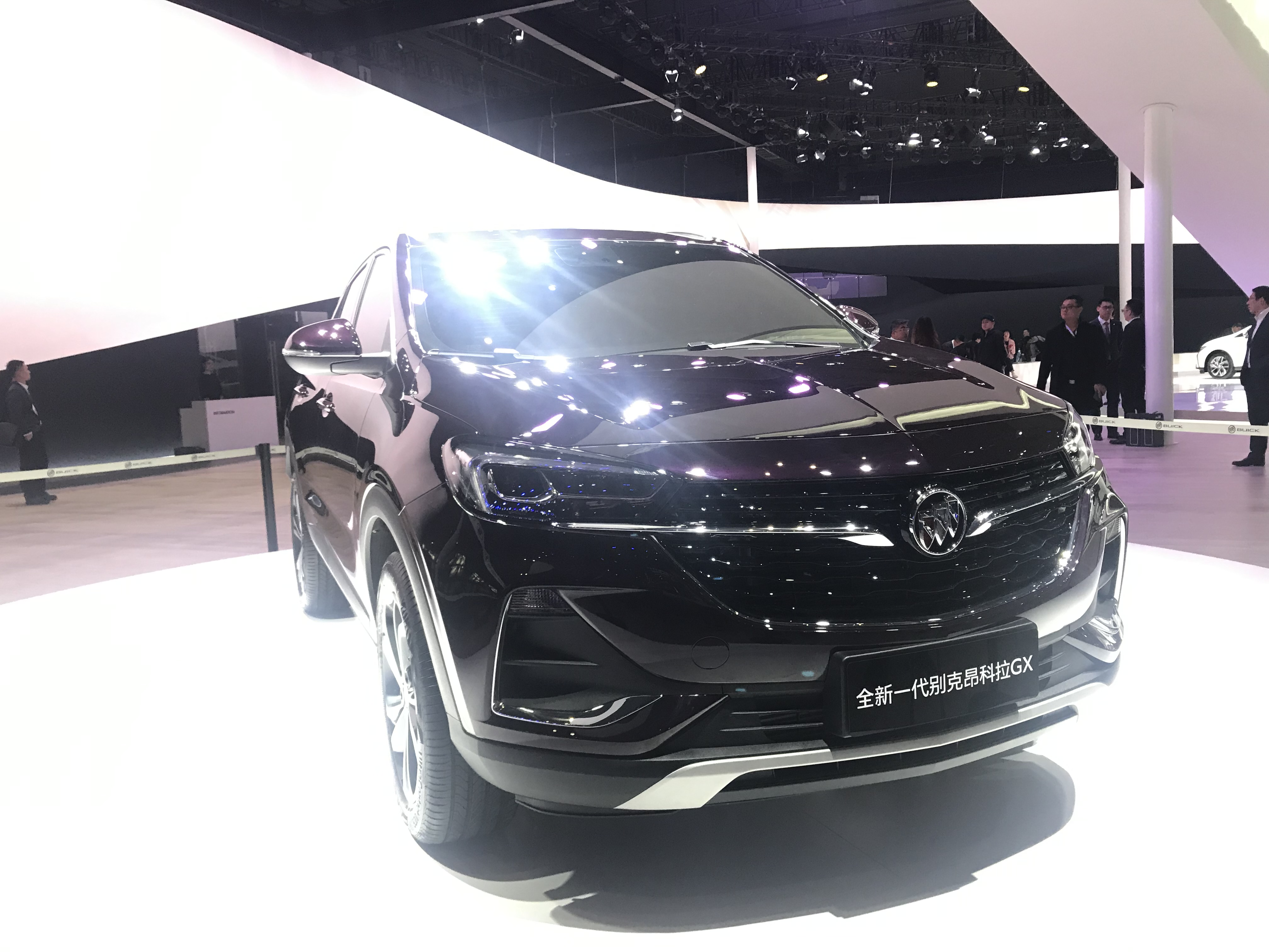 Buick Encore GX